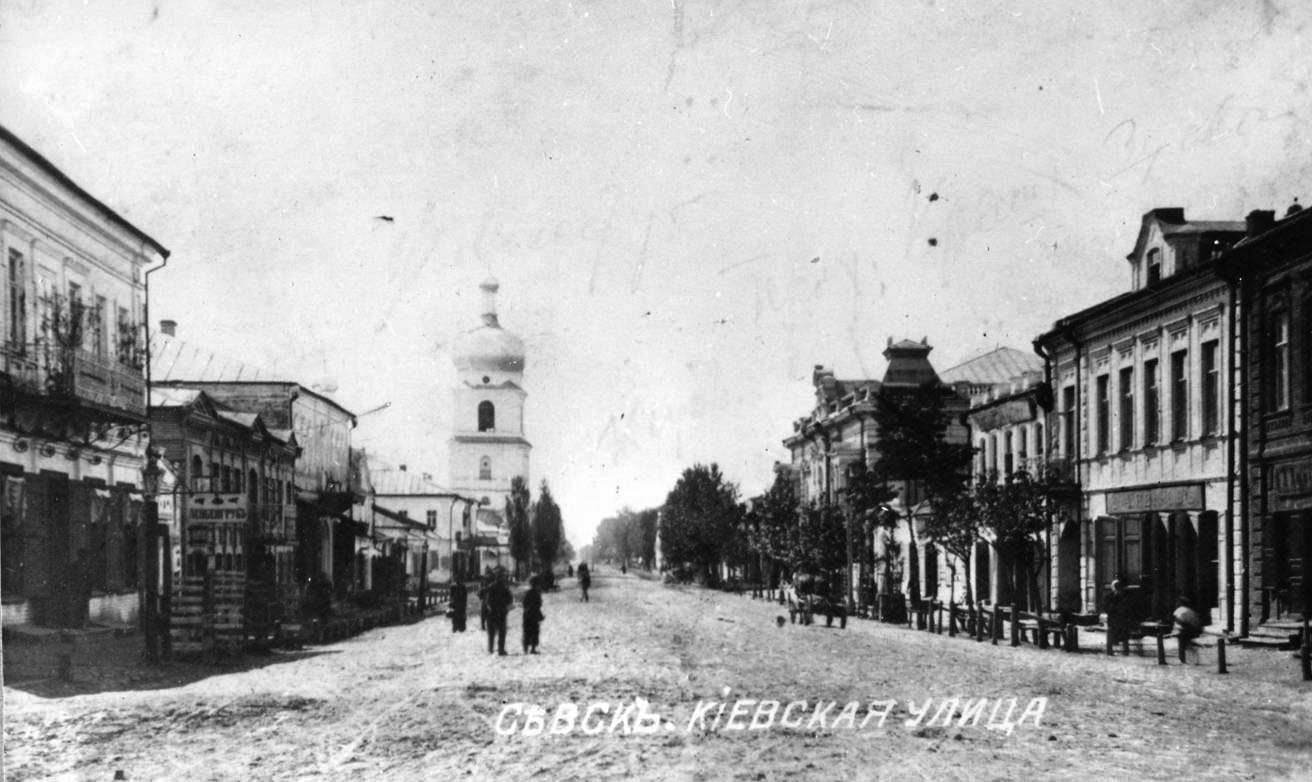 Sevsk, Bryansk Oblast in the beginning of XXth century. Kievskaya street (now Lenin street).